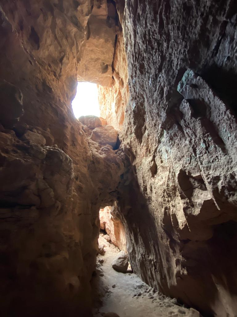 The Cave of Leon or Buitrera landscape of Cipolletti, Rio Negro